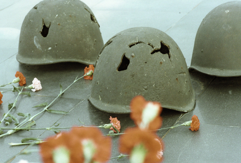 “Soviet soldiers' helmets riddled by shells on the Mamayev Hill Memorial.”. Soviet soldiers' helmets riddled by shells on the Mamayev Hill Memorial in Volgograd (former Stalingrad).